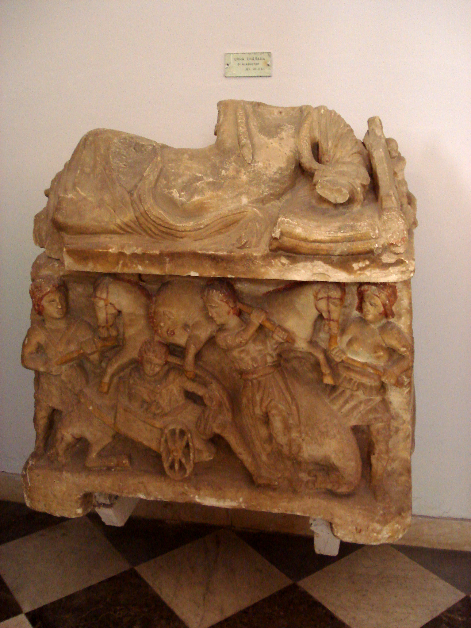 Alabaster Etruscan cinerary urn. National archeological museum in Palermo, Italy. Picture by Giovanni Dall'Orto, September 28 2006.